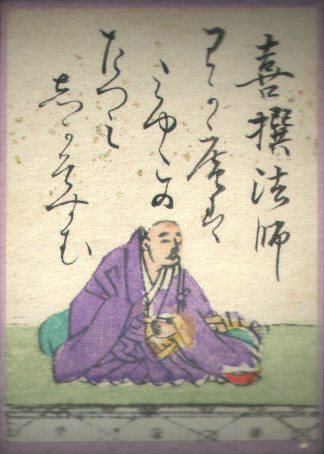 A portrait of Kisen Hōshi; illustration from an uta-garuta playing card for Hyakunin Isshu, created in the Edo period.